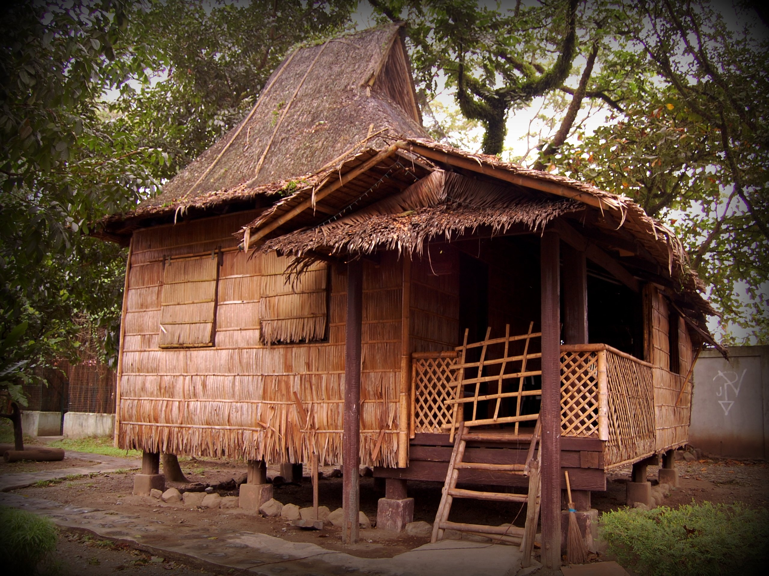 Manuel L. Quezon, the second Filipino president, was born in this simple hut on 18 August 1878 in the town of Baler in what was then Tayabas (now Quezon) province. His father is a Spanish mestizo who was executed by Katipuneros for allegedly assisting Spanish soldiers who were then under siege in the church of Baler. (Another account claims that Quezon's father is actually a disgraced Franciscan priest). Quezon fought in the Philippine-American War, was elected as councilor, governor, a member of the Philippine Assembly, and a senator before winning the Philippines' first national presidential election in 1935. He died of tuberculosis in Saranac Lake, New York on 1 August 1944 without seeing the Philippines liberated from Japanese occupation. Nikon D40 (Model Lodge No. 373 Community Visit, December 2008)